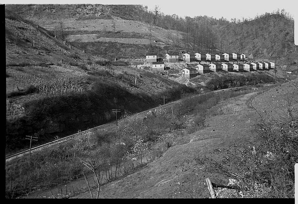 Coal company town in Jenkins, Kentucky, in 1935.